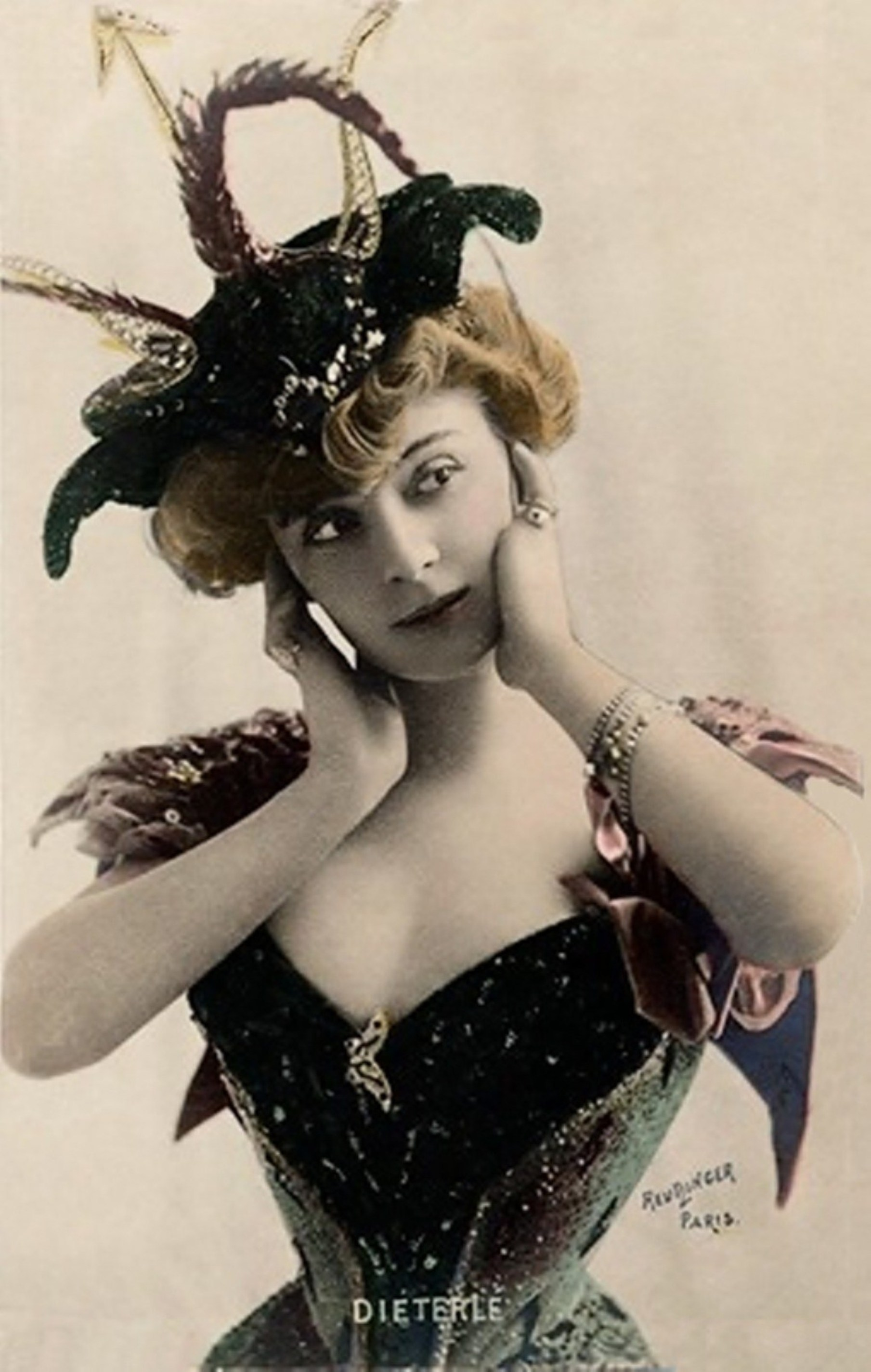 Postcard of the Belle Époque : Amélie Diéterle, actress at the Théâtre des Variétés in Paris. She is represented here in the play: « Le carnet du Diable » in 1900. The role played by Amélie Diéterle, is that of Sataniella.